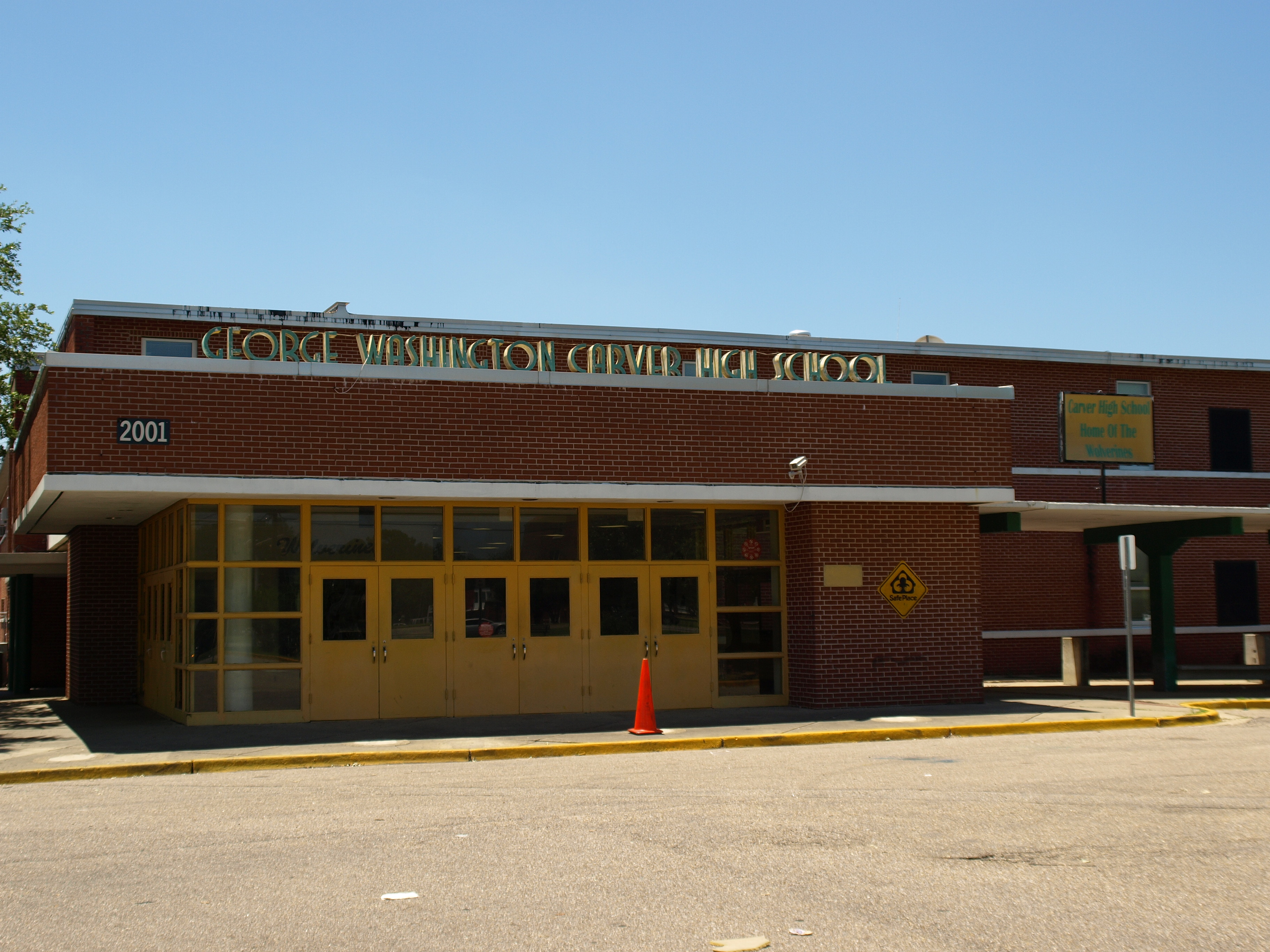 George Washinton Carver High School in Montgomery, Alabama